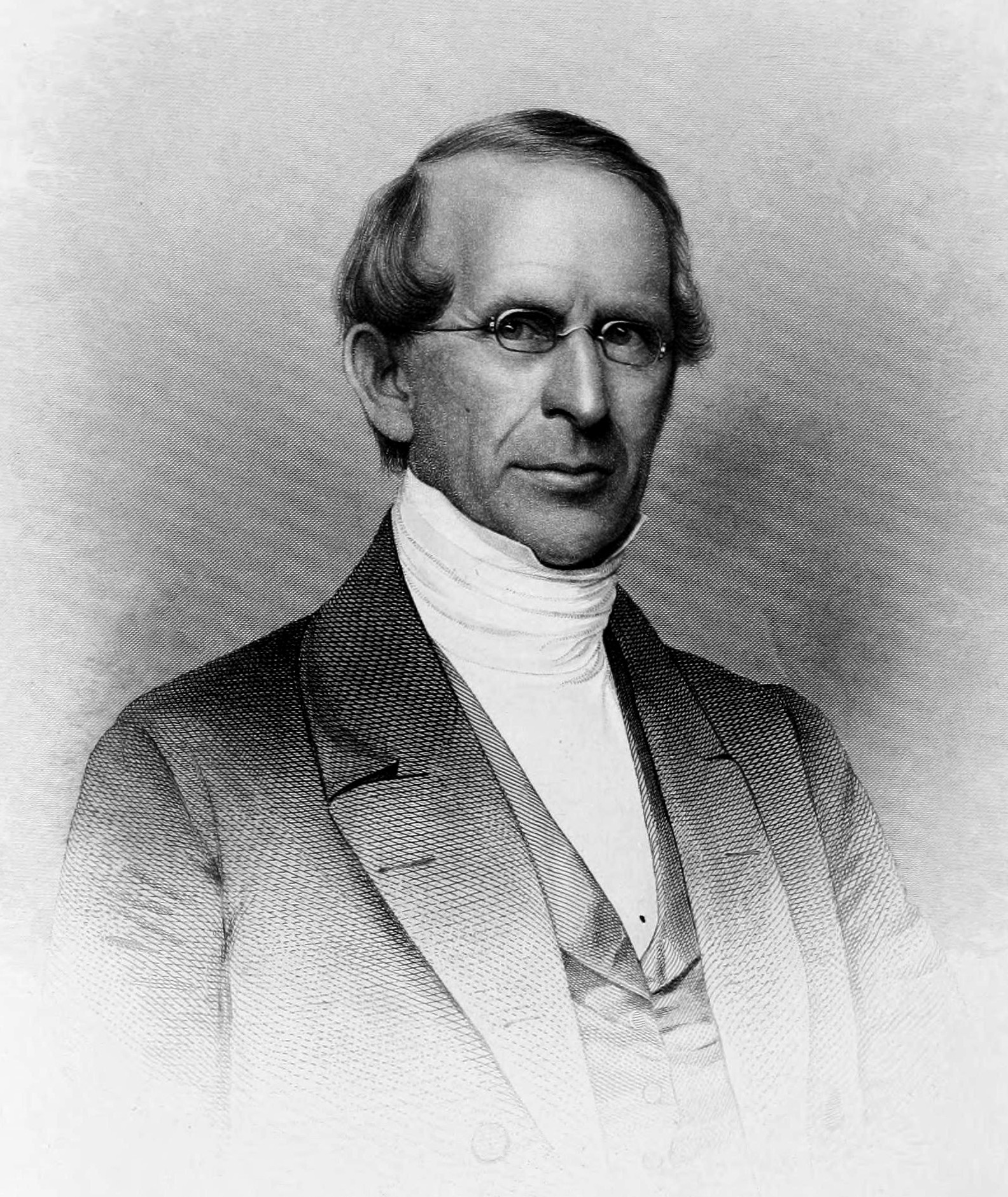 Rufus Anderson (1796–1880) was an American minister who spent several decades organizing overseas missions for the American Board of Commissioners for Foreign Missions. He wrote many articles and several books. Engraving by J. C. Buttre from a daguerreotype.